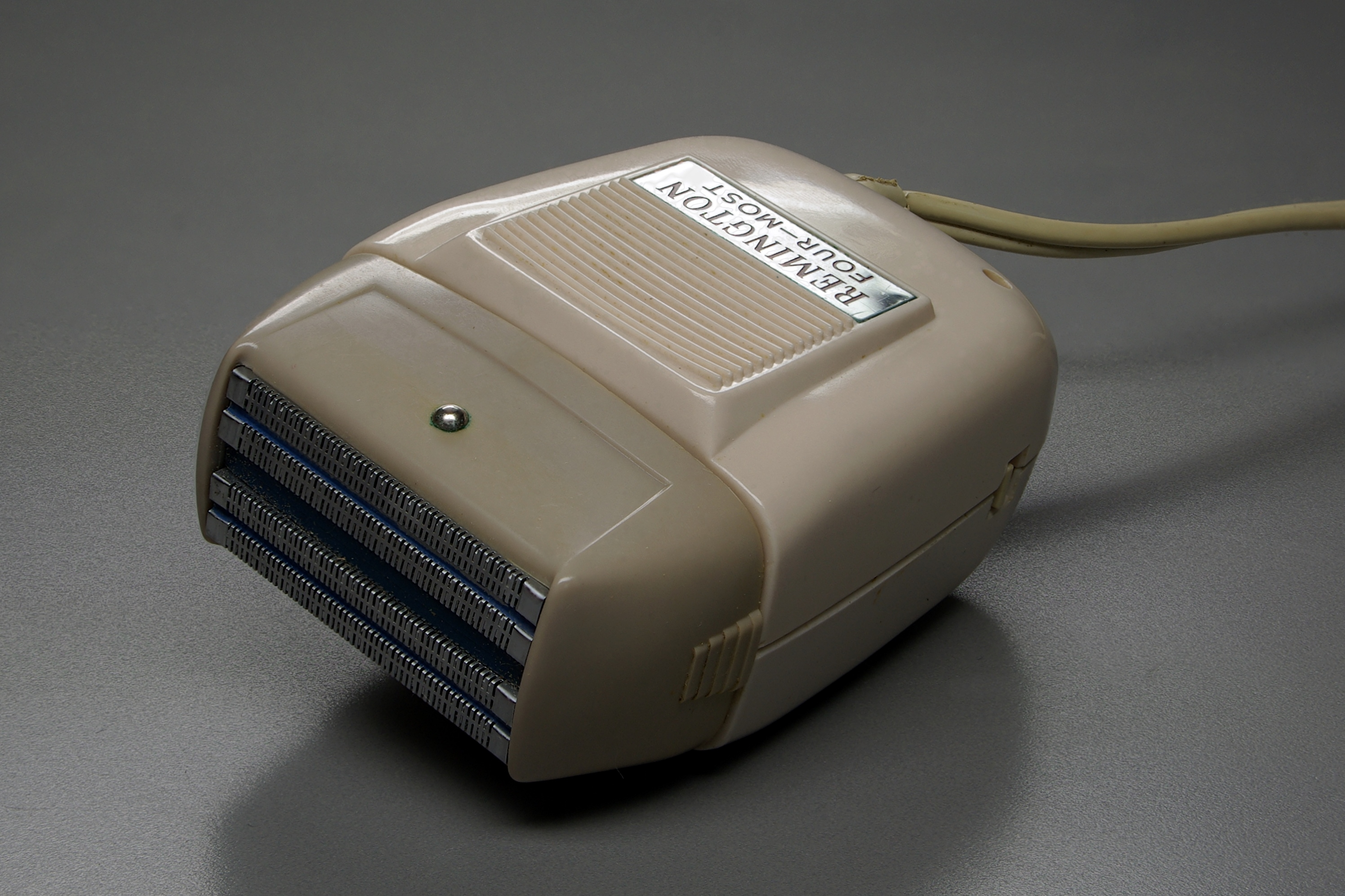 Remington Four-Most